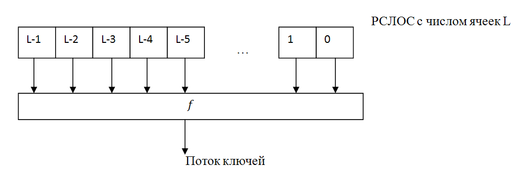 Generator